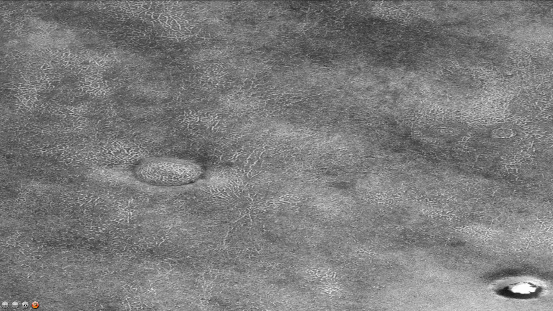 Philips Crater showing polygons, as seen by CTX